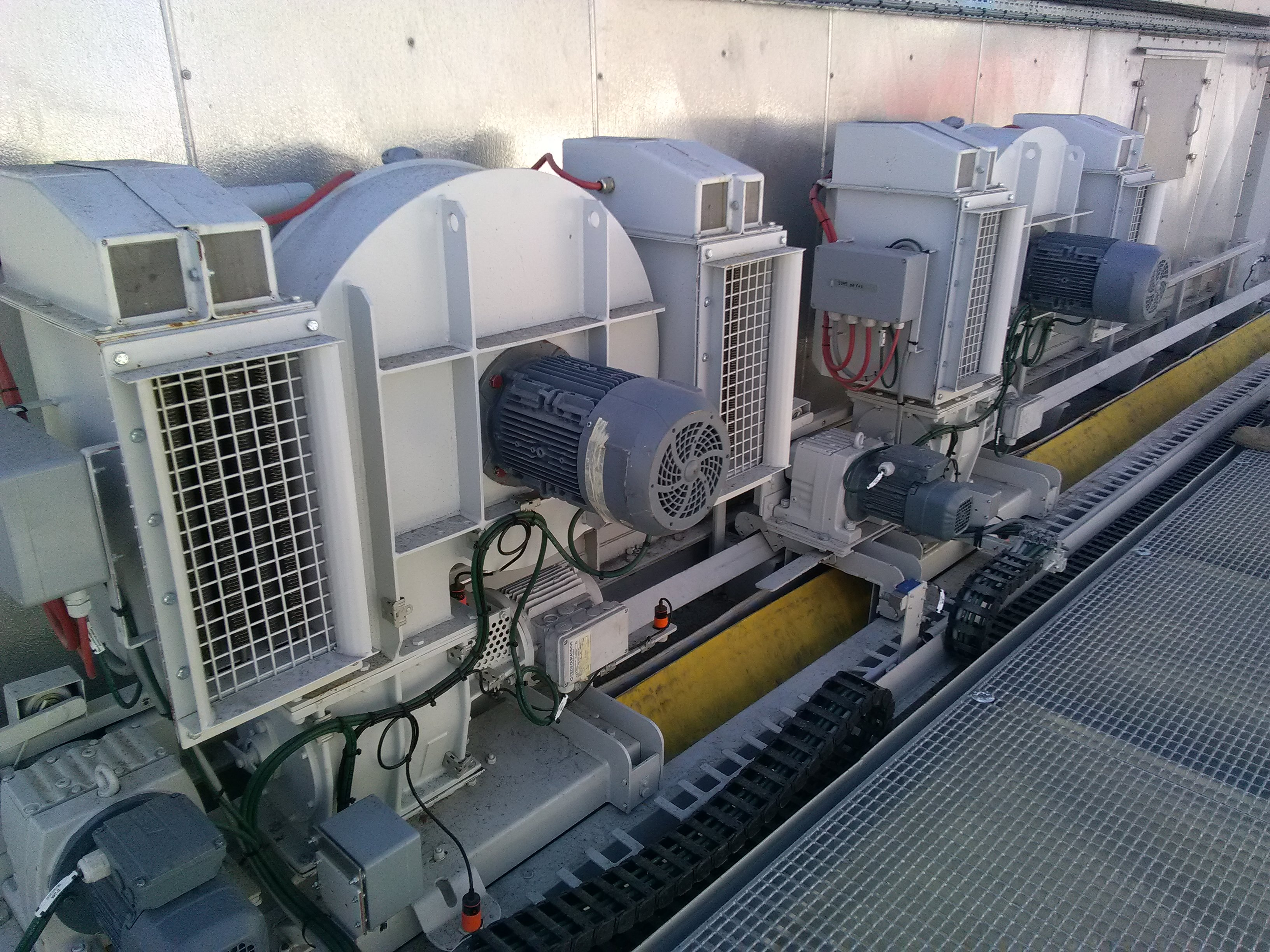 Mobile cleaning device with low pressure fan